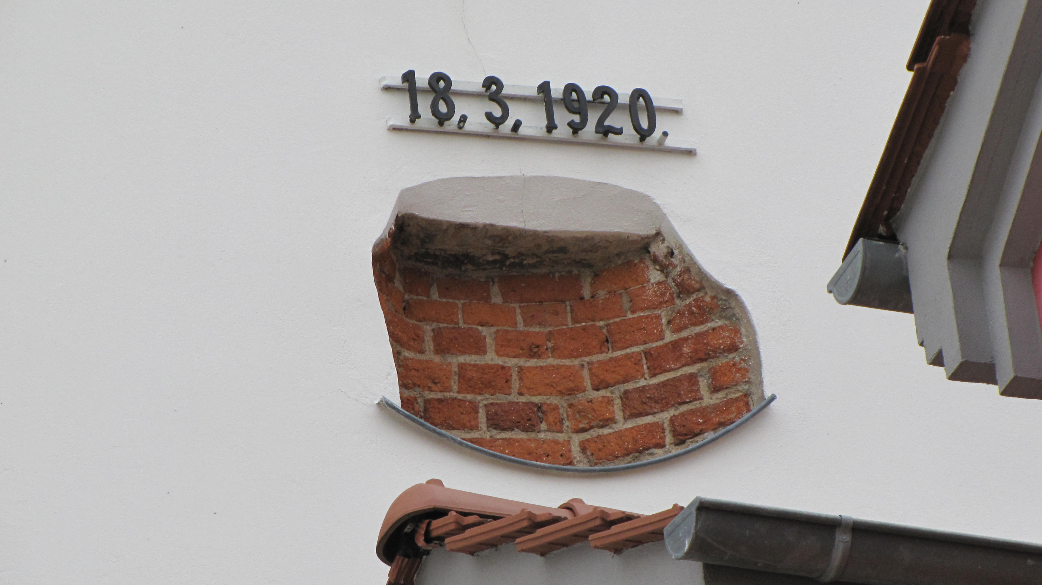 Damage from cannon ball fired during the Kapp-Putsch on the south side of Waren's town hall